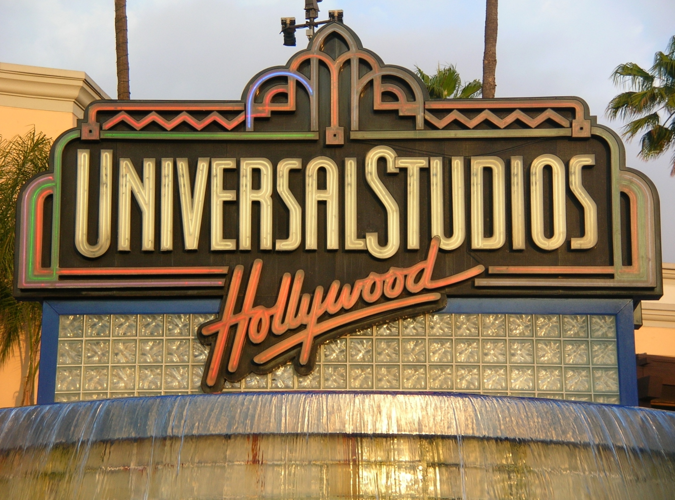 The Universal Studios Hollywood sign.